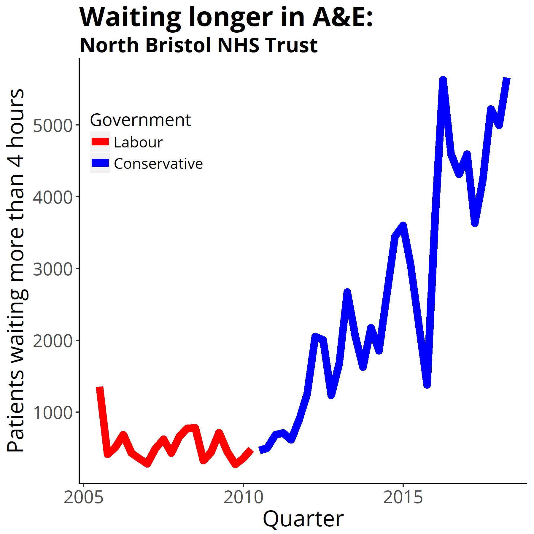 Four-hour target in the emergency department quarterly figures from NHS England Data from